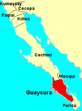 location map